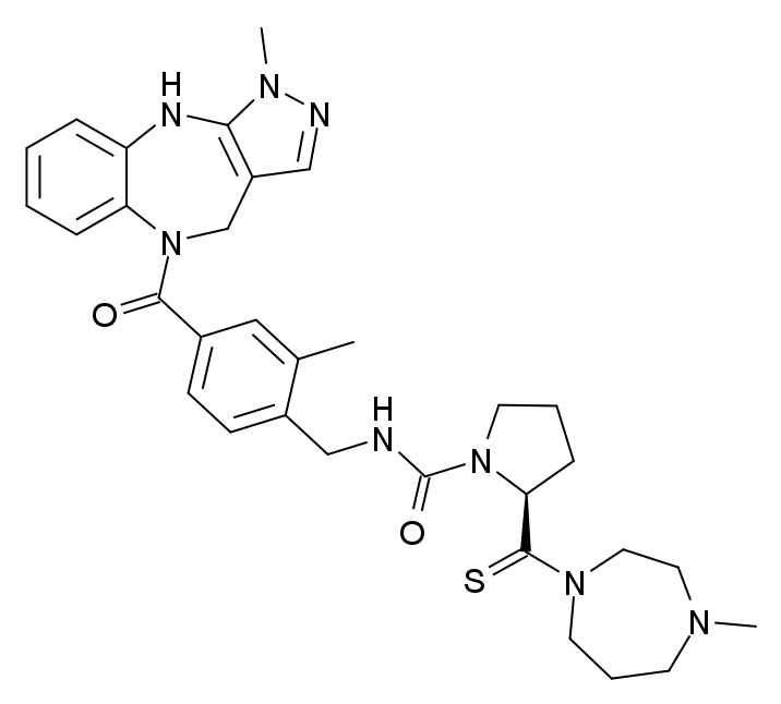 oxytocin agonist